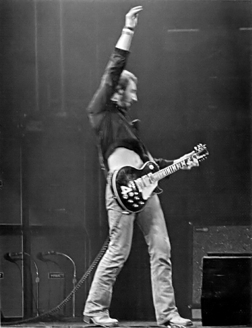 Some snaps taken years ago. Pete Townshend, The Who, Toronto Maple Leaf Gardens, Oct 1976. Reworked version of Image:Pete_Townshend_Windmill.jpg by -jha